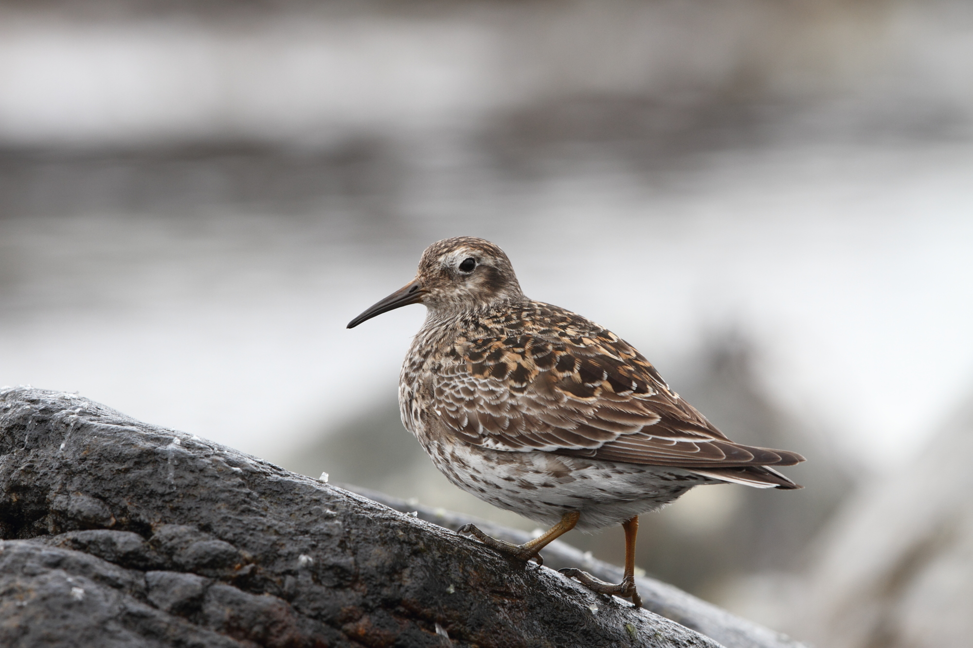 Purple Sandpiper (Calidris maritima) from Lista, Norway